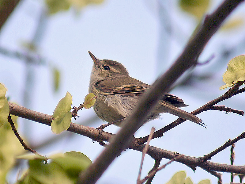 Greenish Warbler Phylloscopus trochiloides in Bhopal, Madhya Pradesh, India.